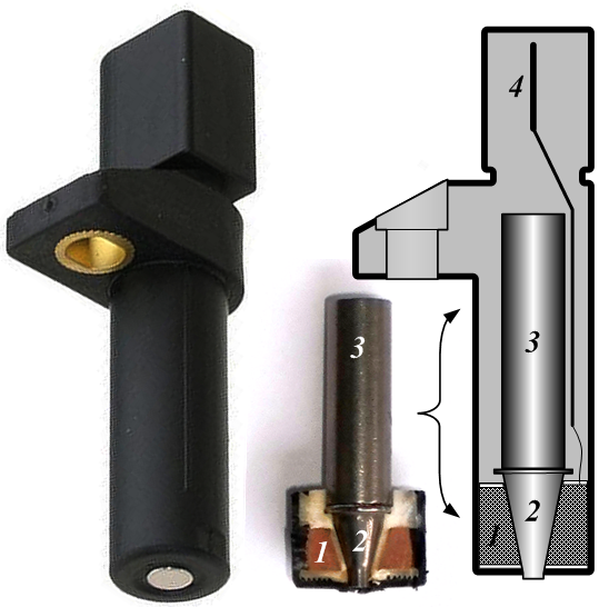 Typical inductive crankshaft position sensor. 1 - Coil 2 - Soft iron 3 - Magnet 4 - Electrical connector